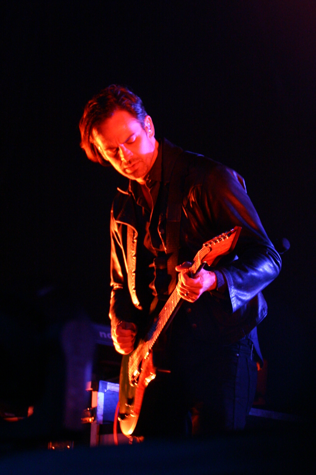 Troy van Leeuwen, guitarist of Queens of the Stone Age, on the Alternastage of Rock im Park Festival 2014. Festivalsommer This photo was created with the support of donations to Wikimedia Deutschland in the context of the CPB project "Festival Summer".